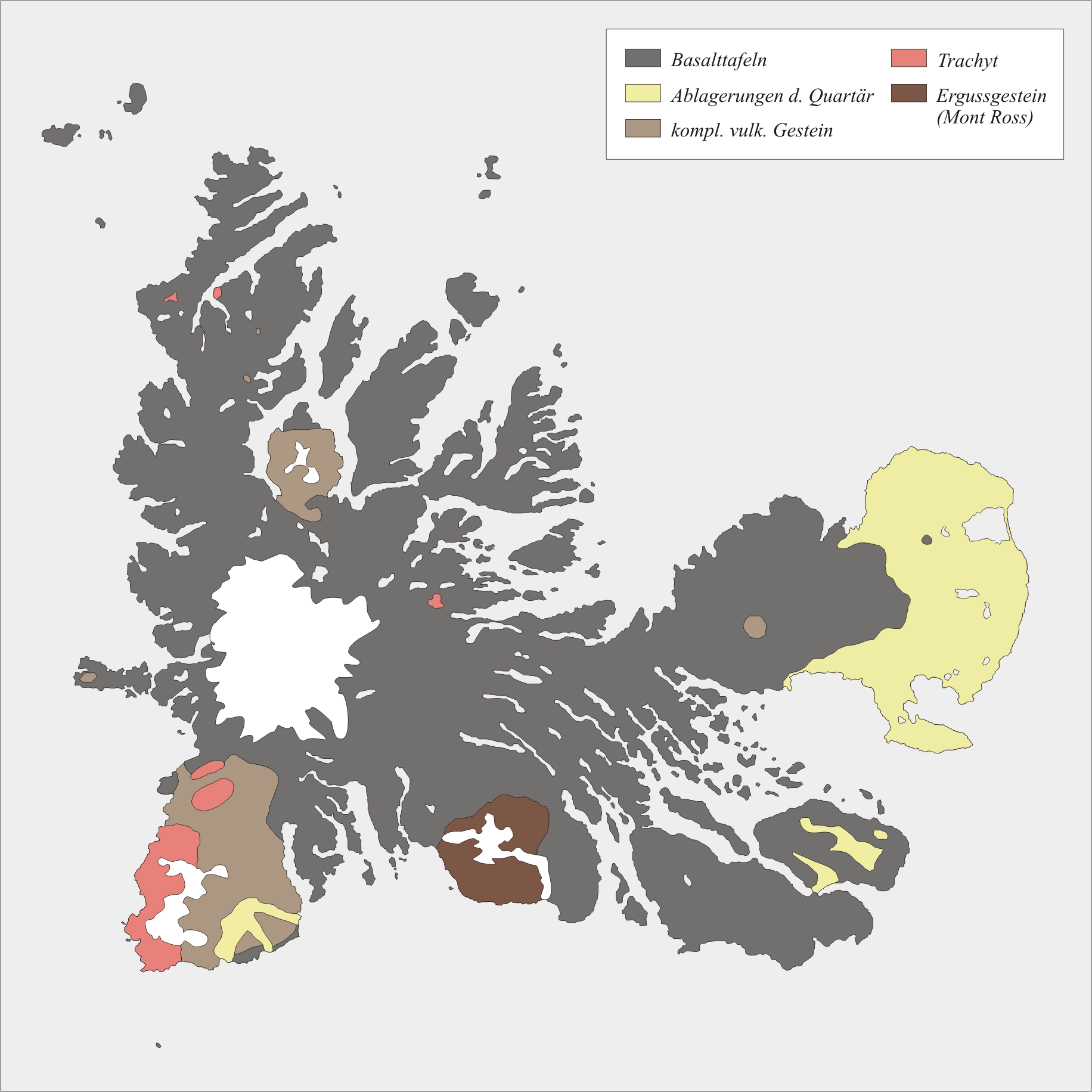 Geological map of Kerguelen Islands, French Southern and Antarctic Territories drawn by varp